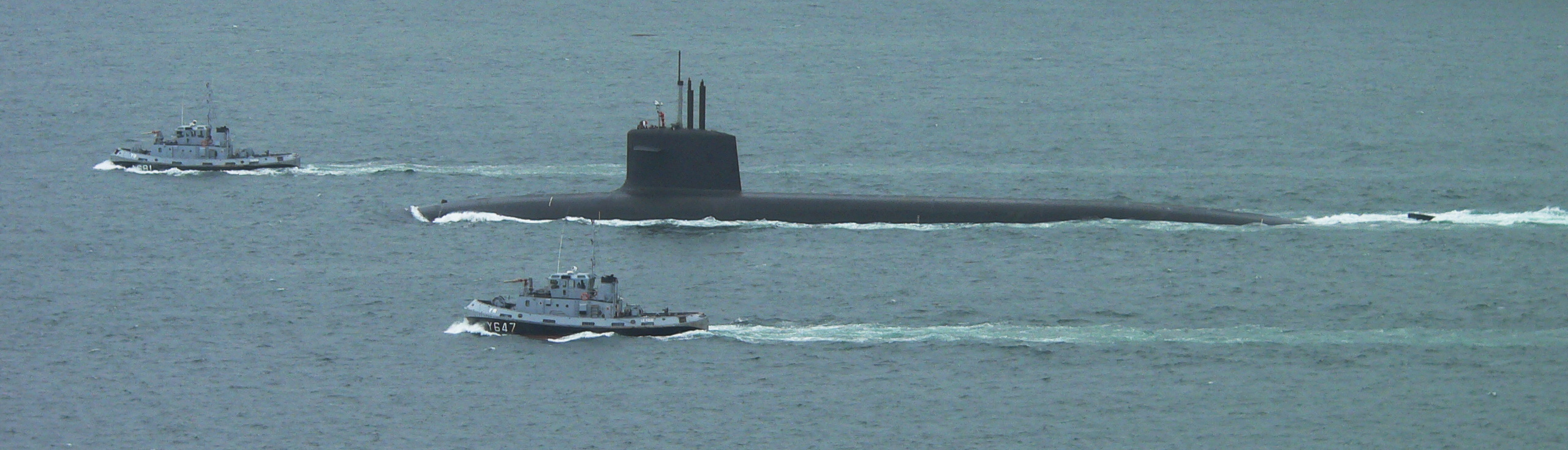 French Submarine Le Terrible (S 619) Triomphant Class Watched at Goulet de Brest, Pointe de Espagnols